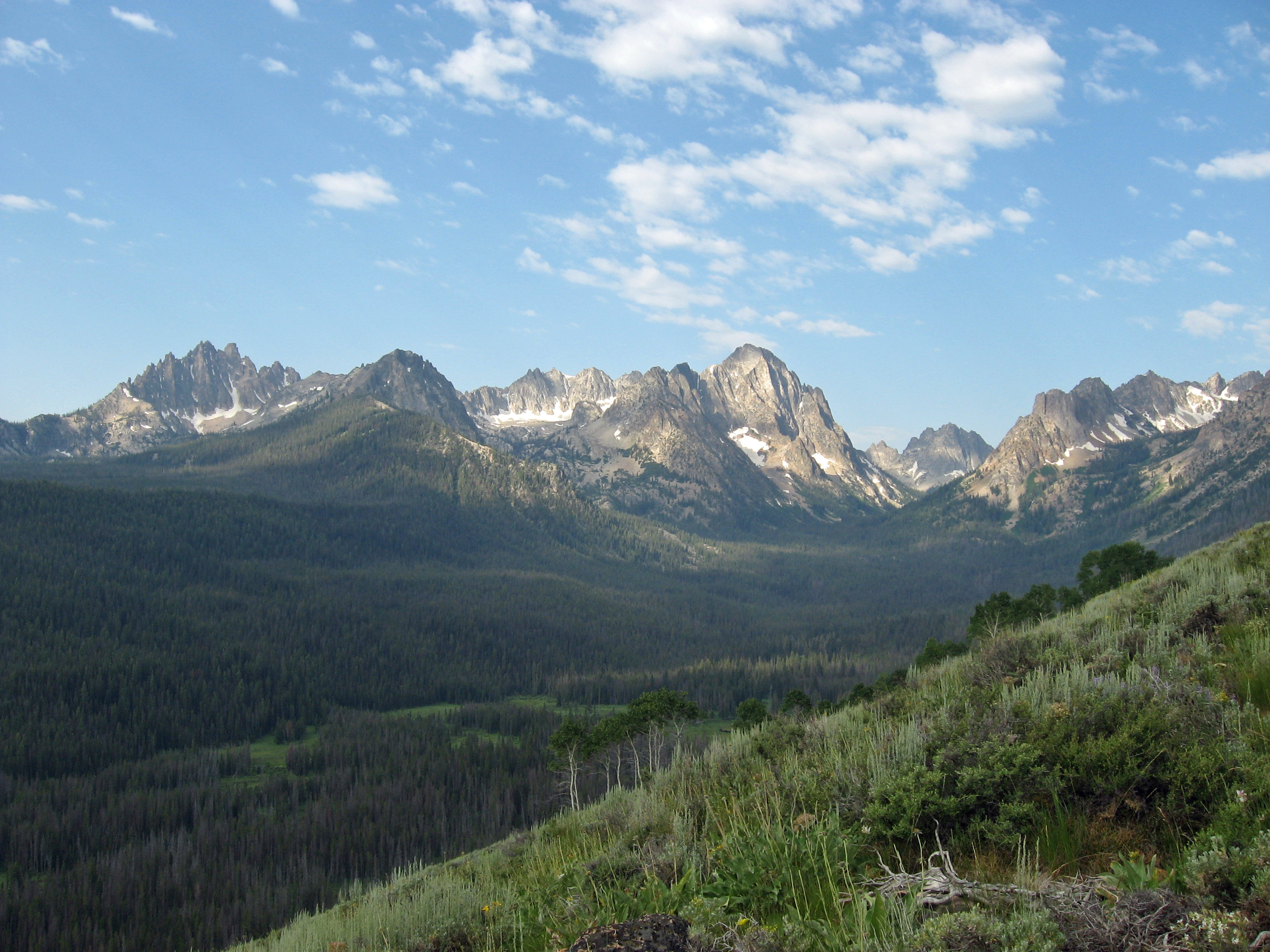 Sawtooth Mountains in Sawtooth National Recreation Area, Idaho, from the Alpine Way Trail